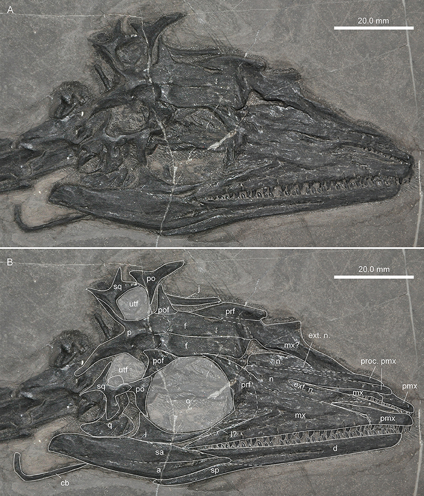 Skull of specimen GMPKU-P-3001 of Macrocnemus fuyuanensis. (A) Photograph; (B) interpretative drawing superimposed. Note that the element indicated by an asterisk (*) could either be part of an exposed palate or, similarly likely, it could represent the median process of the premaxilla, which is otherwise not visible. Anatomical abbreviations are defined in the source.